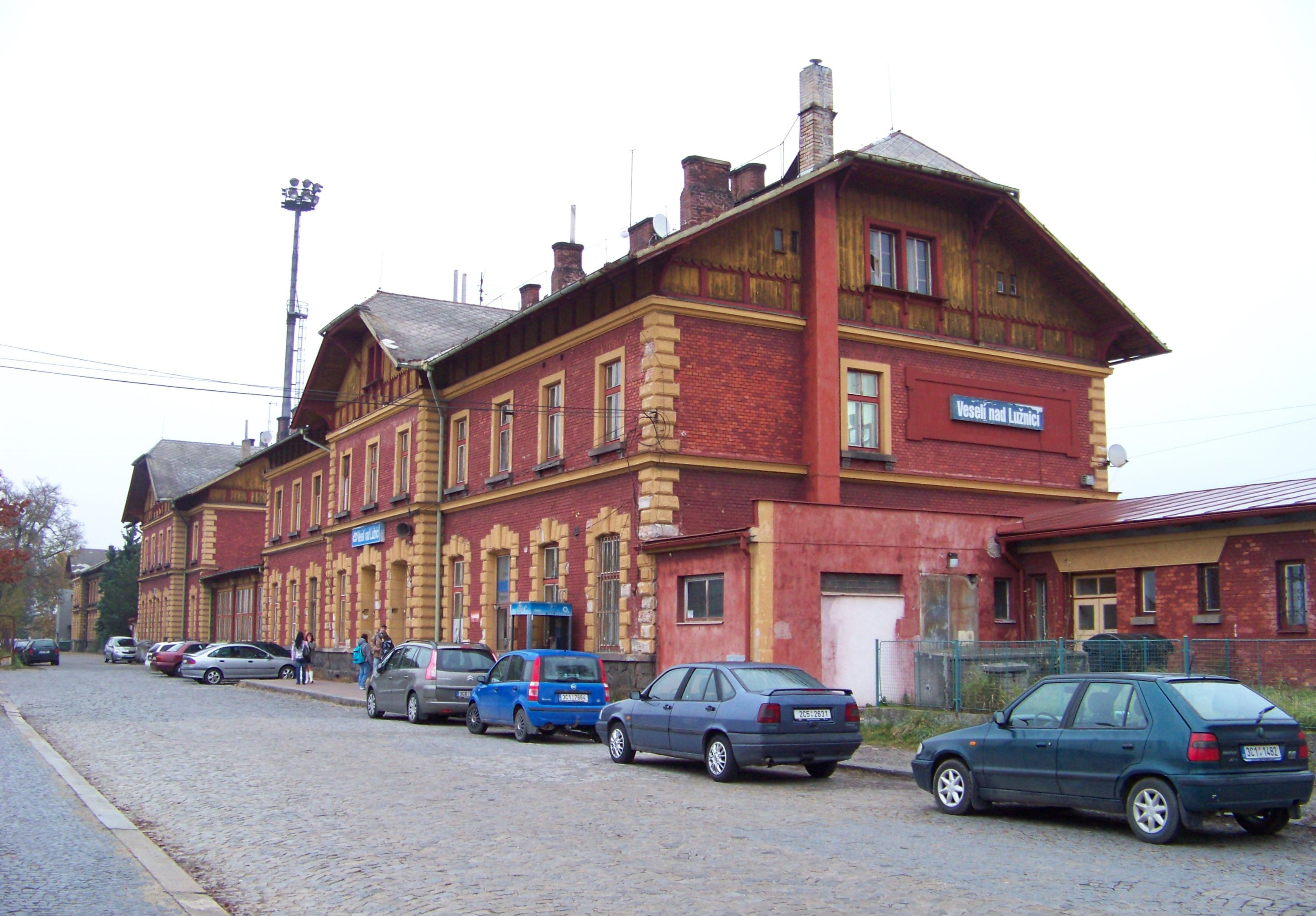 Veselí nad Lužnicí II, Tábor District, South Bohemian Region, the Czech Republic. Nádražní street, the train station. - OpenStreetMap(Info)